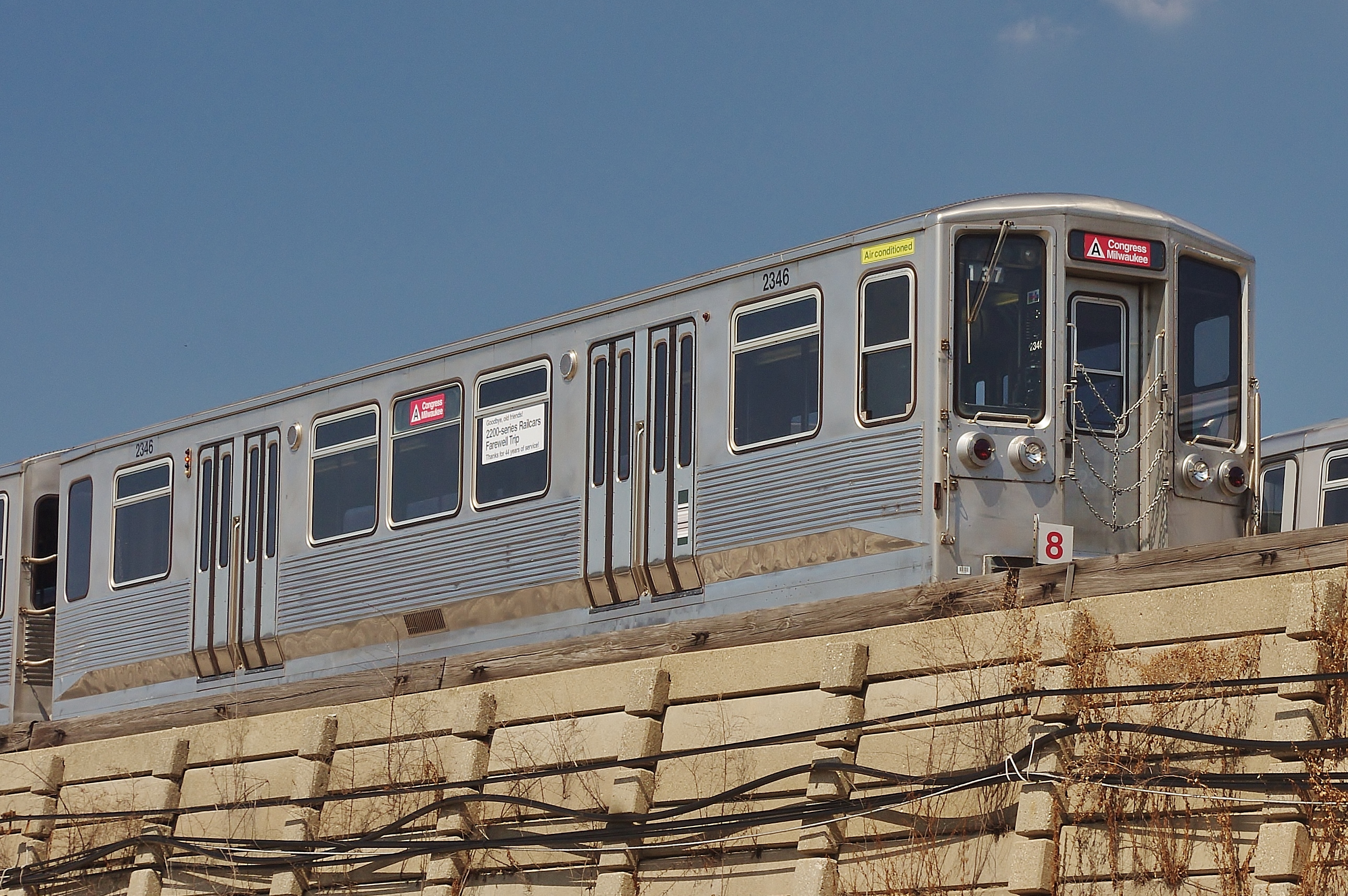 Retired 2200 Series car 2346 in the Green Line yard in Forest Park. It was one of the cars used in the CTA's farewell trip on August 8, still displaying the "A" train Congress-Milwaukee markers.